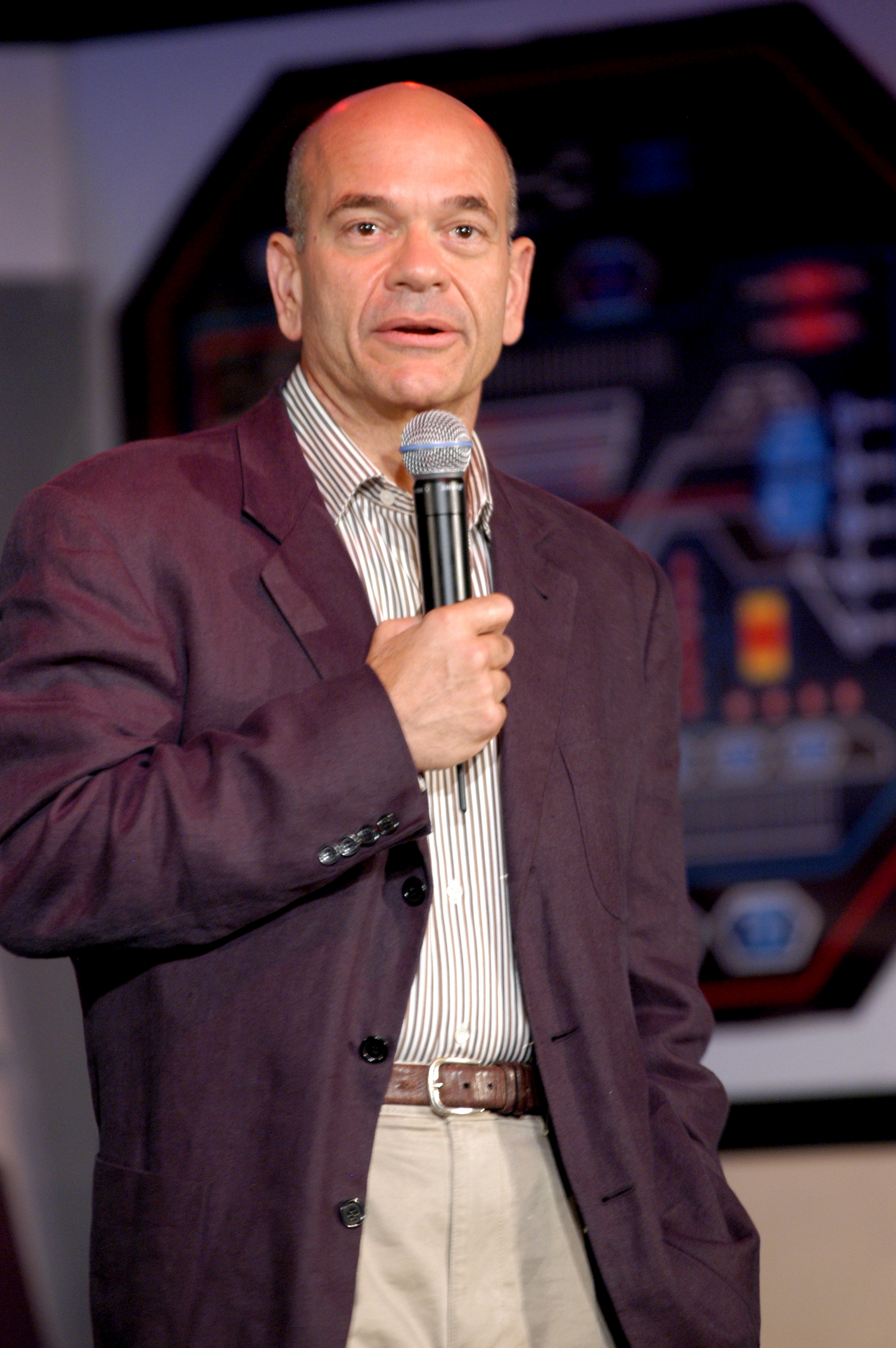 Robert Picardo. American actor famous for playing "The Doctor" on Star Trek: Voyager, as well as "Richard Woolsey" on Stargate: SG-1. Taken at a Sci-fi convention.